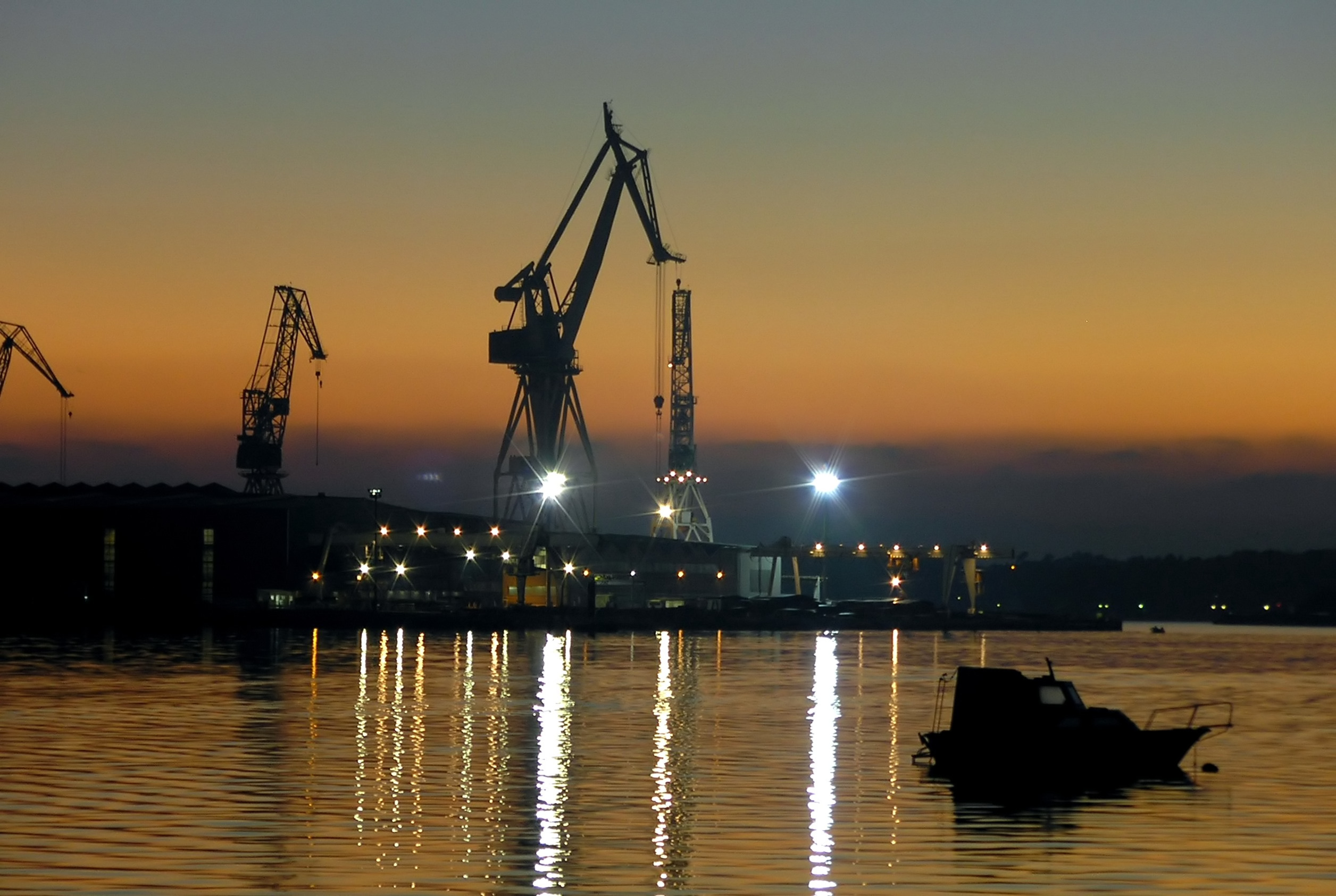 A part of the harbour in Pula, Croatia, under sunset.